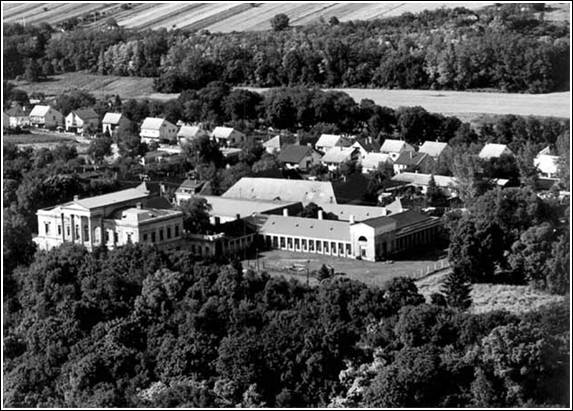 Sándor-Metternich Palace(1720), Bajna, Hungary. (Sándor-Metternich kastély )